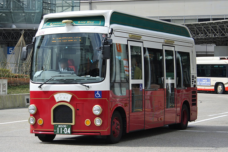 Jokamachi Kanazawa Shuyu Bus (Kyoka) at Kanazawa Station East Exit, Kanazawa, Ishikawa, Japan